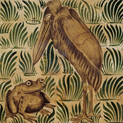 A tile design by William de Morgan dating from about 1872, Victoria & Albert Museum